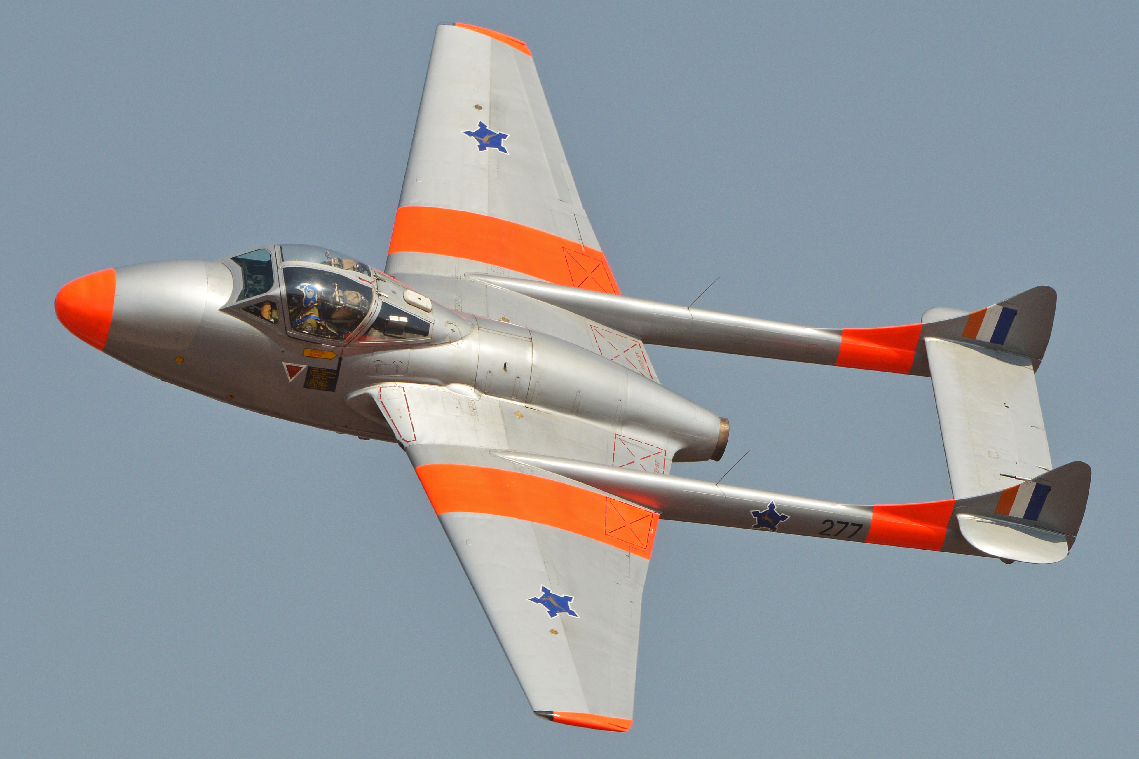 This Vampire T55 (c/n 15498) was built for the Royal Rhodesian Air Force who operated it as 'R4152' . It later flew for the South African Air Force as '277'. It is now operated by the South African Air Force Historic Flight and based at Swartkop AFB. She is seen here during her impressive display routine at the 2014 AAD (African Aerospace & Defence) airshow, held at Waterkloof AFB, South Africa. 20-9-2014